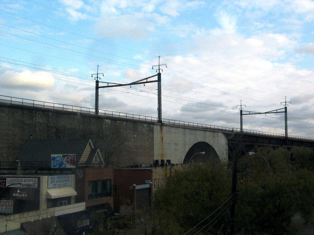 Hell Gate Line south of the titular bridge